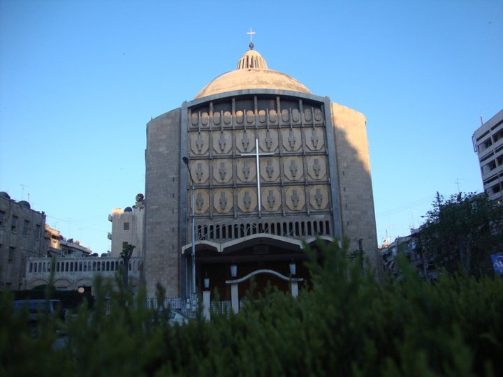 Syrian Catholic Church, Aleppo